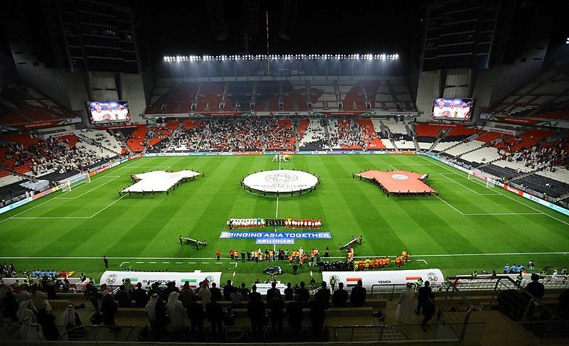 Iran & Yemen Group D match, 2019 AFC Asian Cup